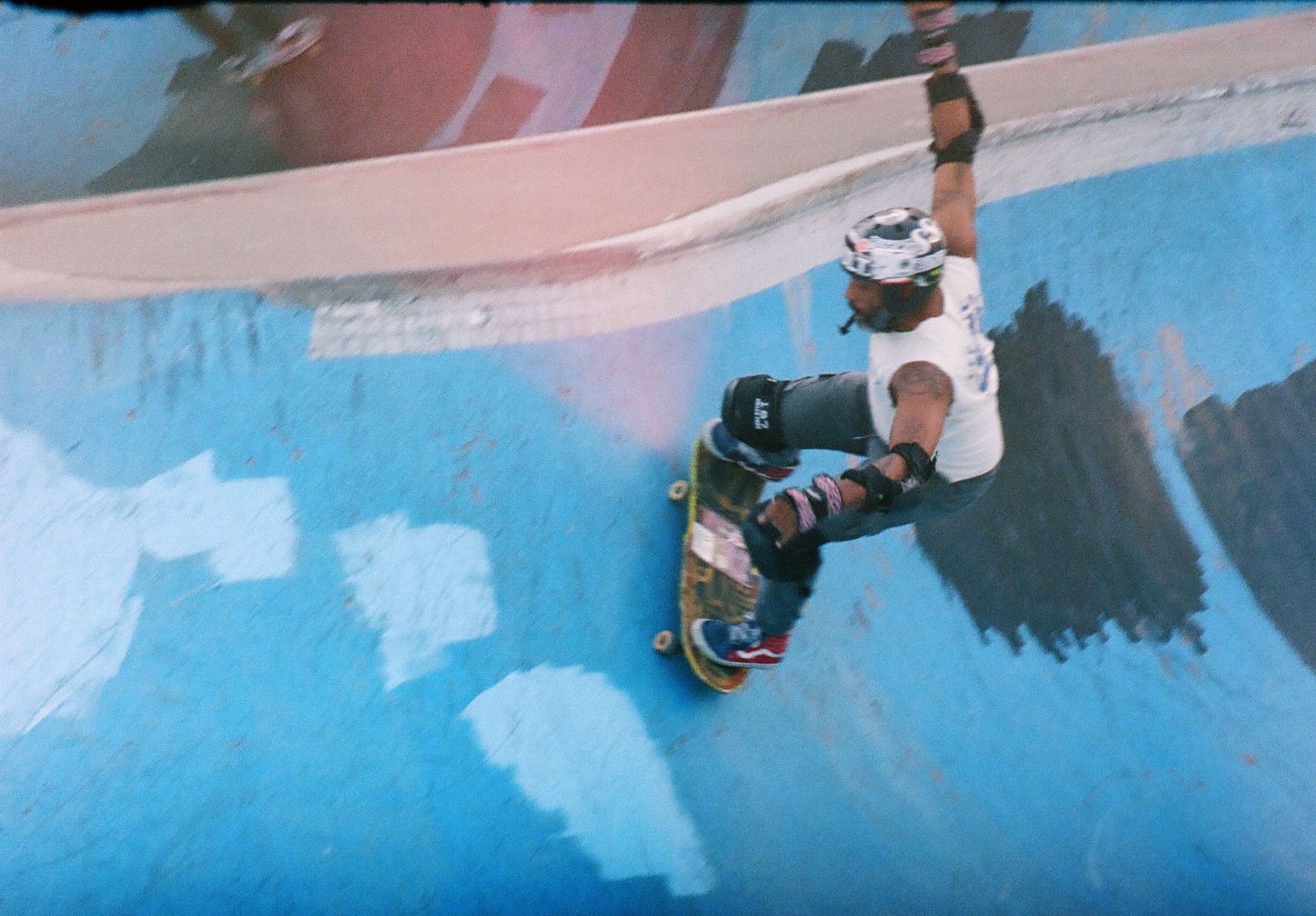 Jon Nicholson carves the bowl at Millennium Skate Park during NYC Skate Coalition's Pool Series event - October 2019